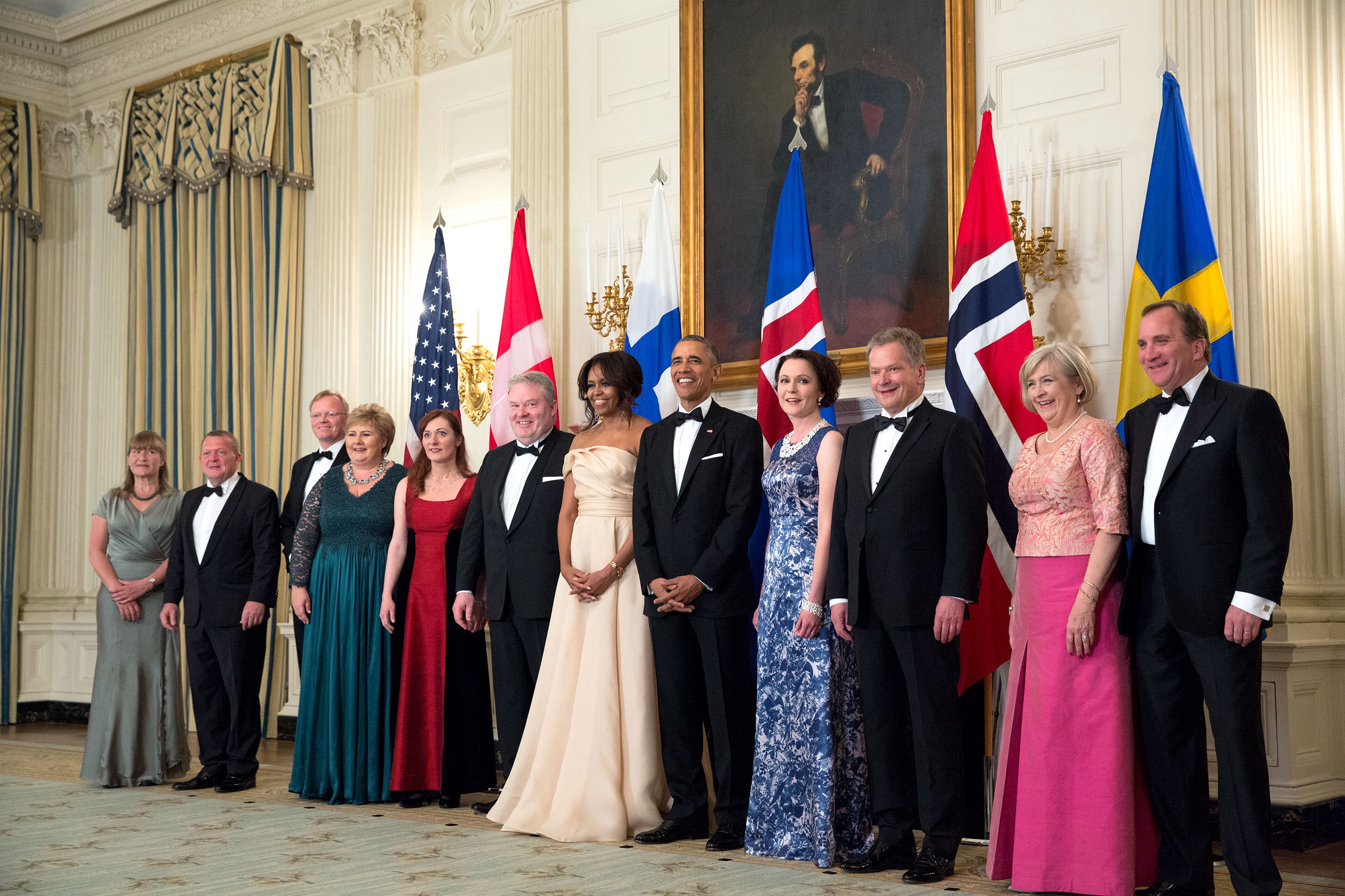 The President and First Lady join Nordic leaders and their spouses for a group photo in the State Dining room. (Official White House Photo by Amanda Lucidon)